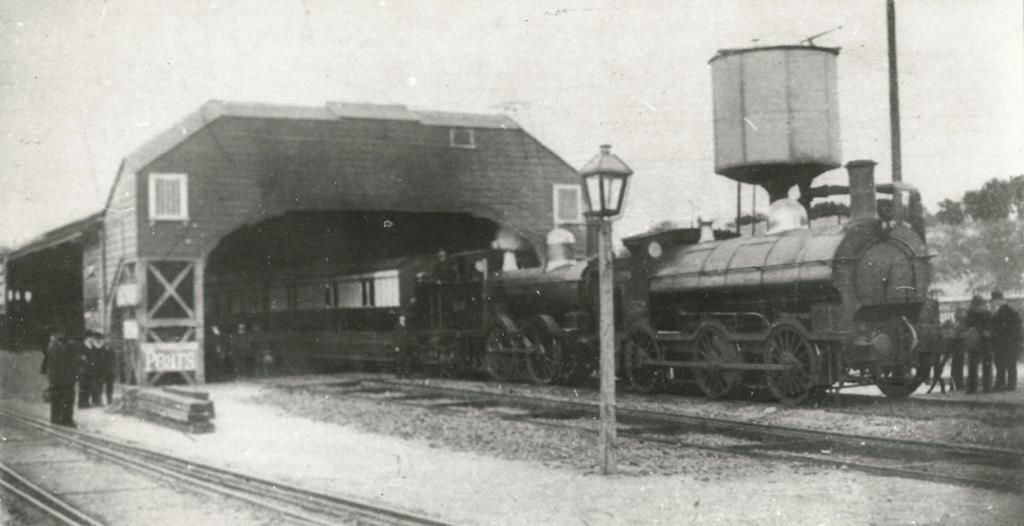 The last broad gauge train from London to Penzance is photographed at Truro on the evening of 20 May 1892. It then returned with the empty stock to Swindon and the line was narrowed to standard gauge. The locomotives are 0-6-0ST 1256 and 0-4-4T 3557.